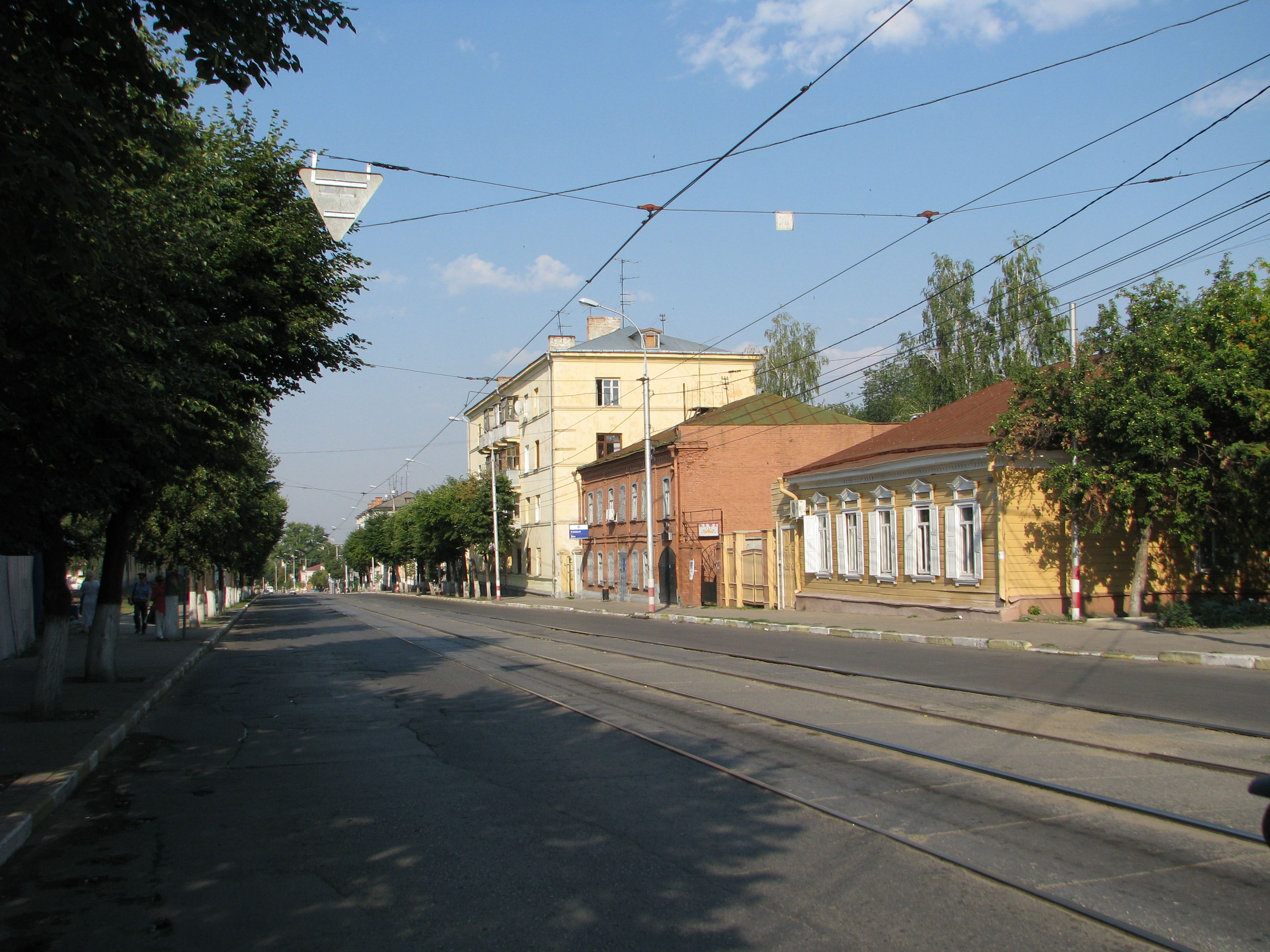 Ulyanovsk. Lenin Street.